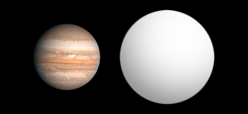 Comparison of best-fit size of the exoplanet HAT-P-7 b with the Solar System planet Jupiter, as reported in the Extrasolar Planets Encyclopaedia[1] as of 2010-10-03. ↑ Extrasolar Planets Encyclopaedia (2010-09-30). Retrieved on 2010-10-03.